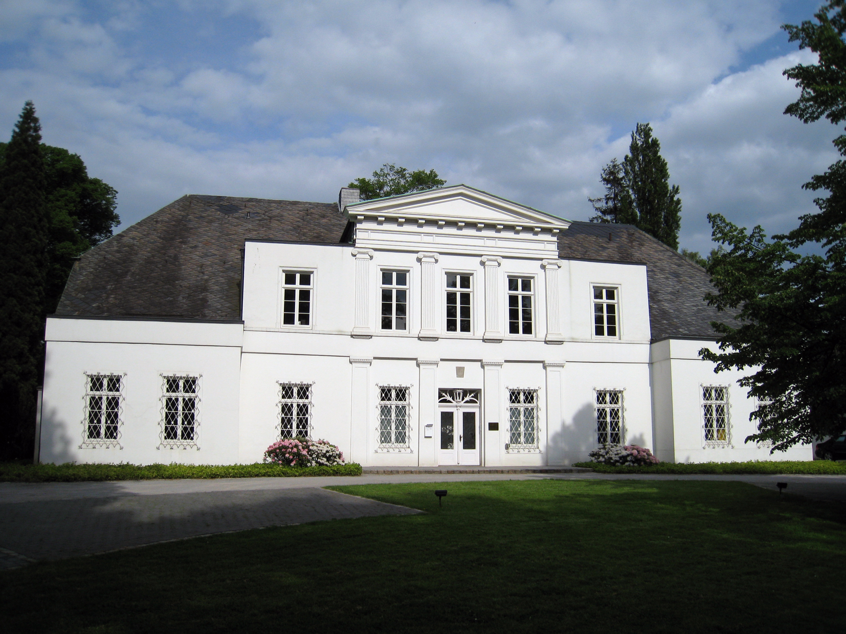 The Borgward-Haus (formerly Landgut Focke-Fritze) in Bremen (Germany).